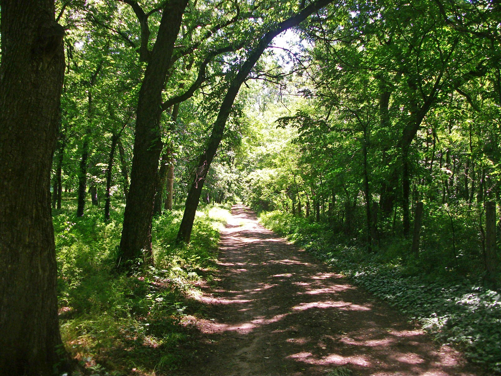 Forest in Seregélyes, Hungary.